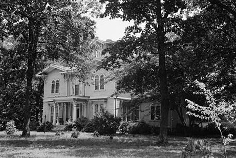 Coolmore — plantation on U.S. Route 64, Tarboro vicinity (Edgecombe County, North Carolina). 1940 photograph from the HABS—Historic American Buildings Survey images of North Carolina (cropped).